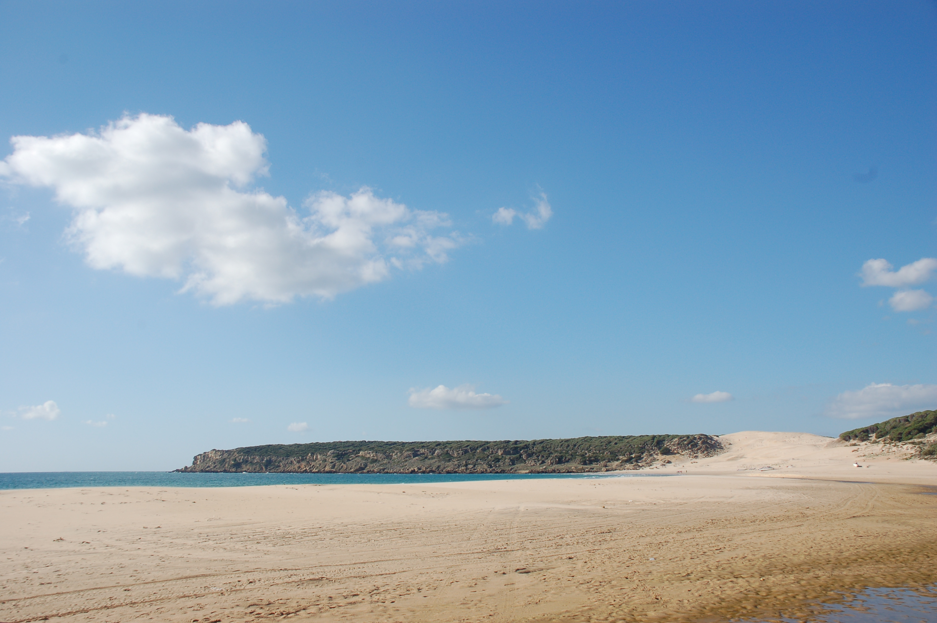 The beach in Bolonia, Cádiz, Spain. A big dune can be seen in the back